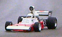 Paul Grant driving the Trojan 103 at Donington Park